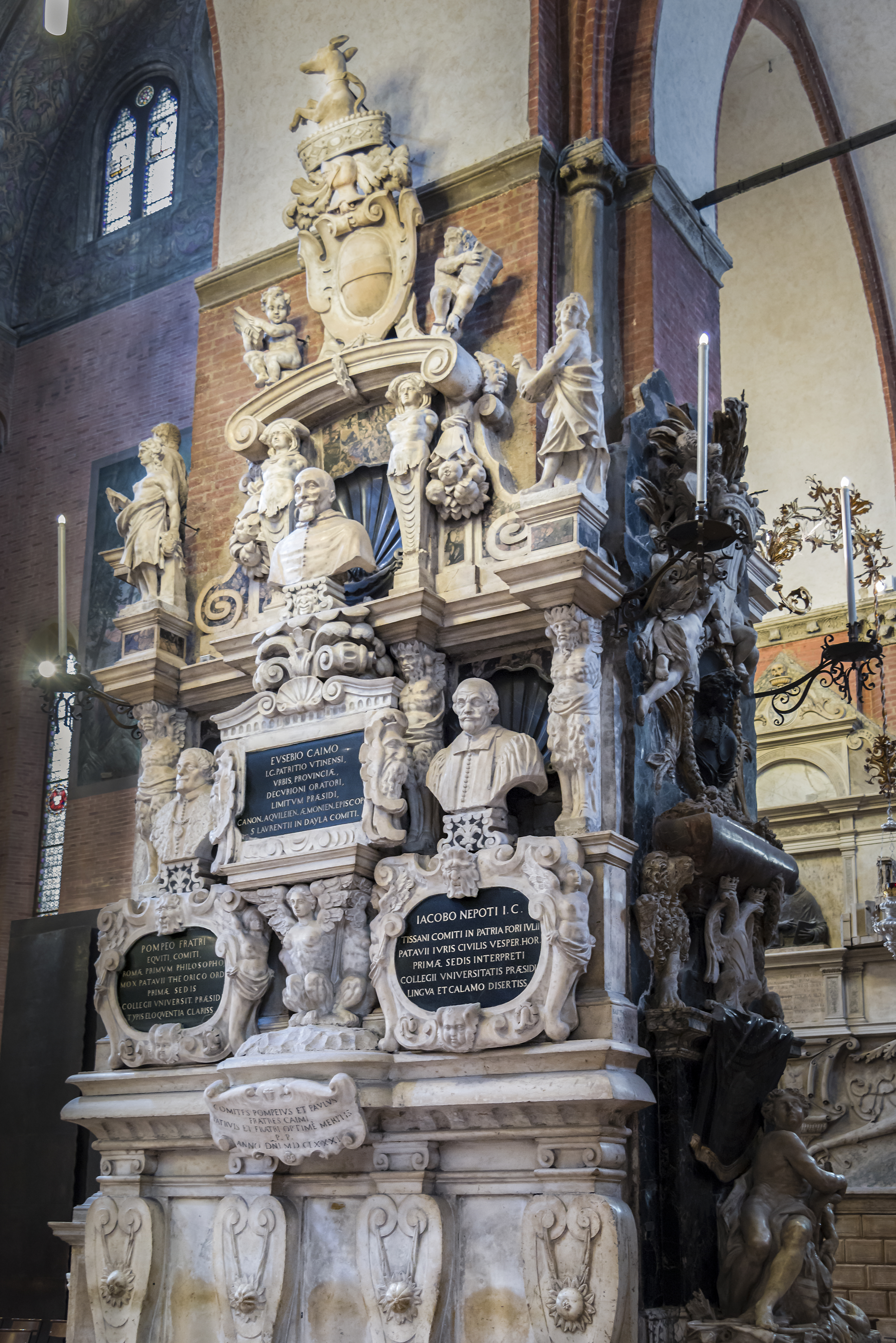 Basilica of Saint Anthony of Padua - The baroque style monument was erected in 1681 to celebrate three members of the Udinese family Caimo: Eusebius, canon of Aquileia and bishop of Cittanova, Pompey, Eusebio's brother, physician, Archbishop of Pope Gregory XV and teacher at the University of Padua, Jacopo, nephew of Pompey, juror consultant and teacher at the University of Padua. The monument is the work of Bartolomeo Mugini.